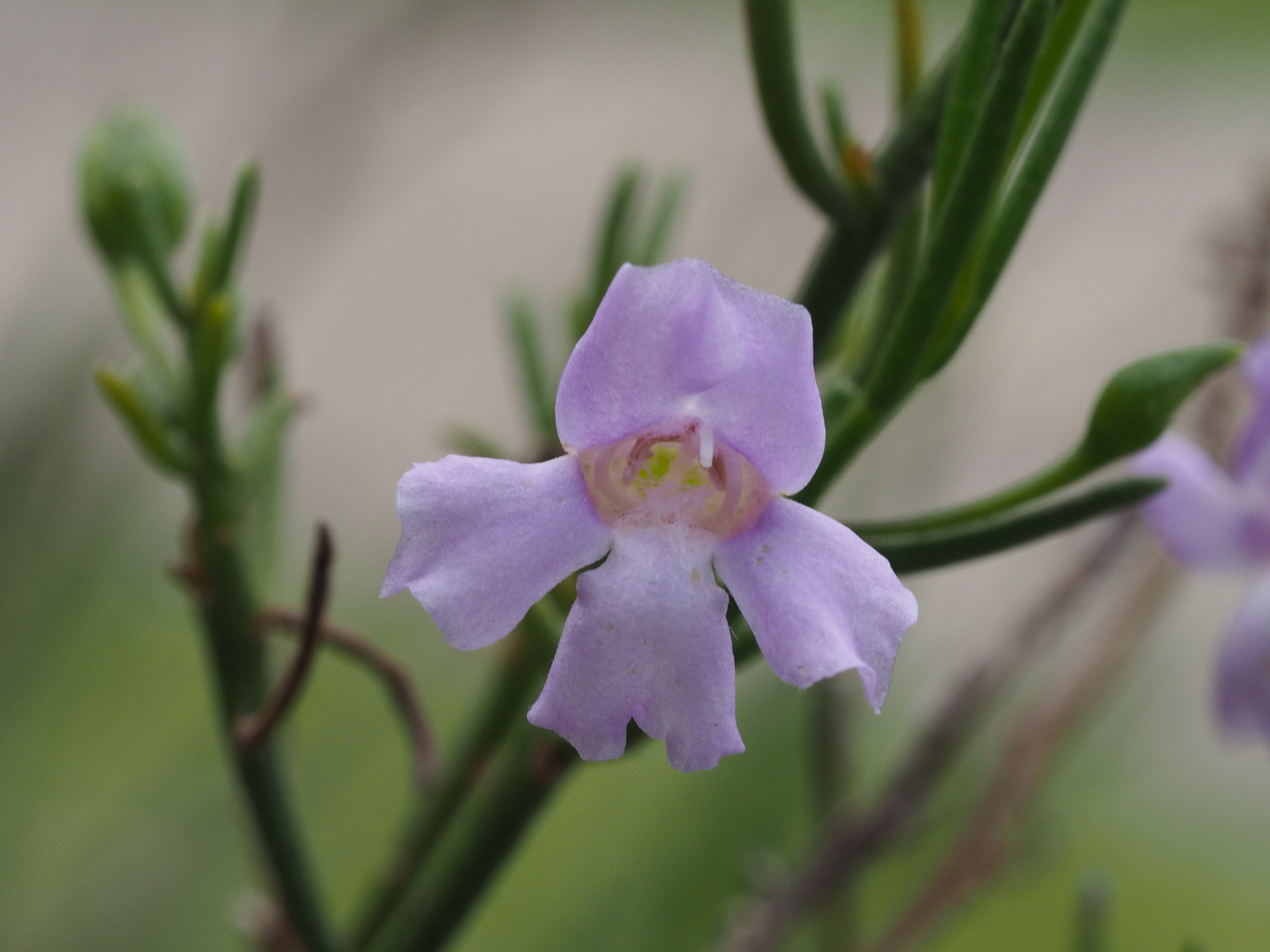 Eremophila drummondii growing in Kings Park, Perth